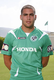 Oshri Gita אושרי גיטה